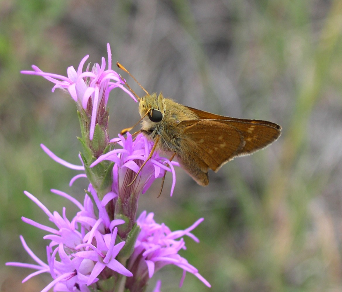 Hesperia leonardus montana — on a Liatris punctata flower. In the Rocky Mountains — at Pike/San Isabel National Forests, Colorado.